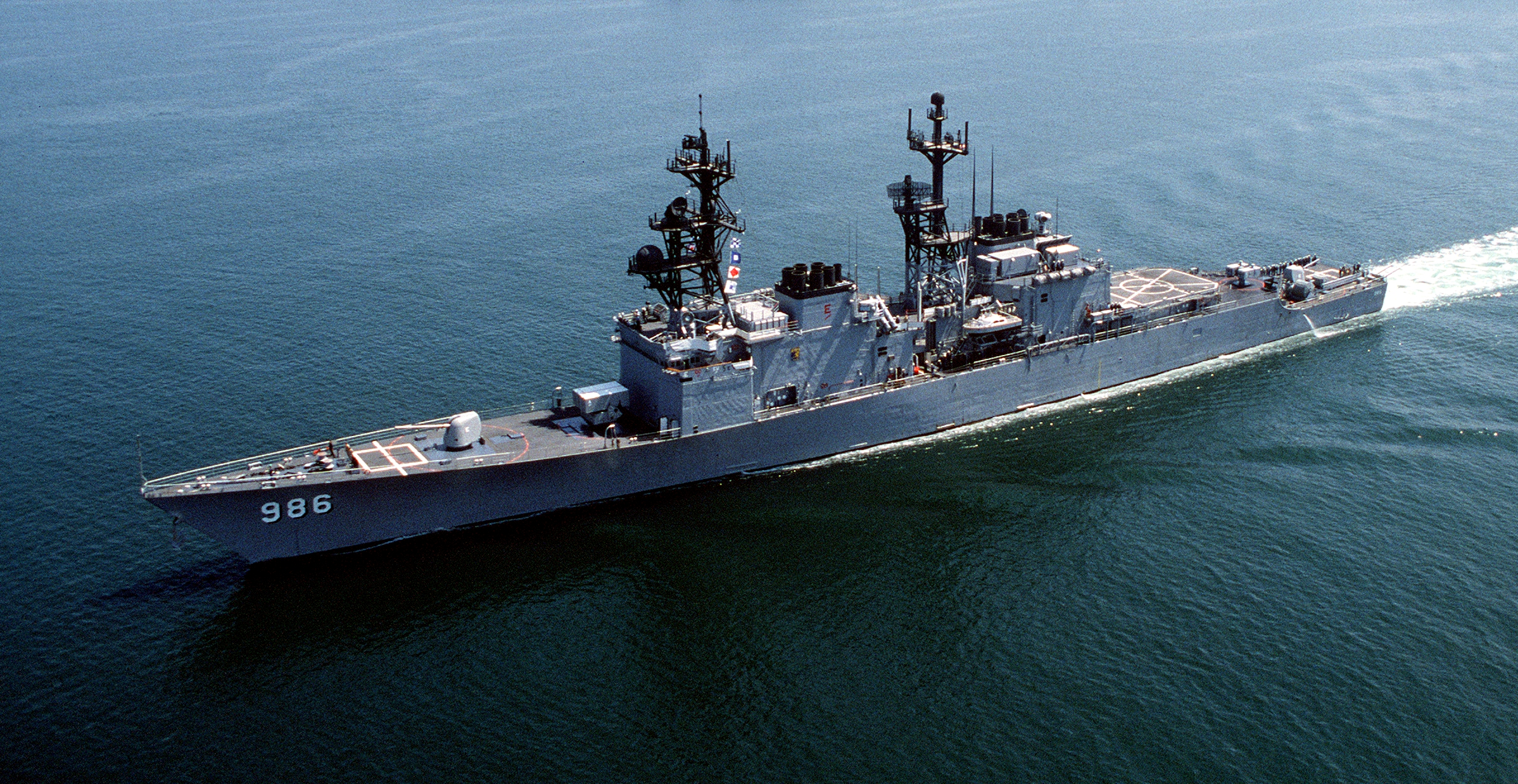 A port bow view of the destroyer USS Harry W. Hill (DD-986) underway in San Diego harbour, California (USA), on 14 December 1984.